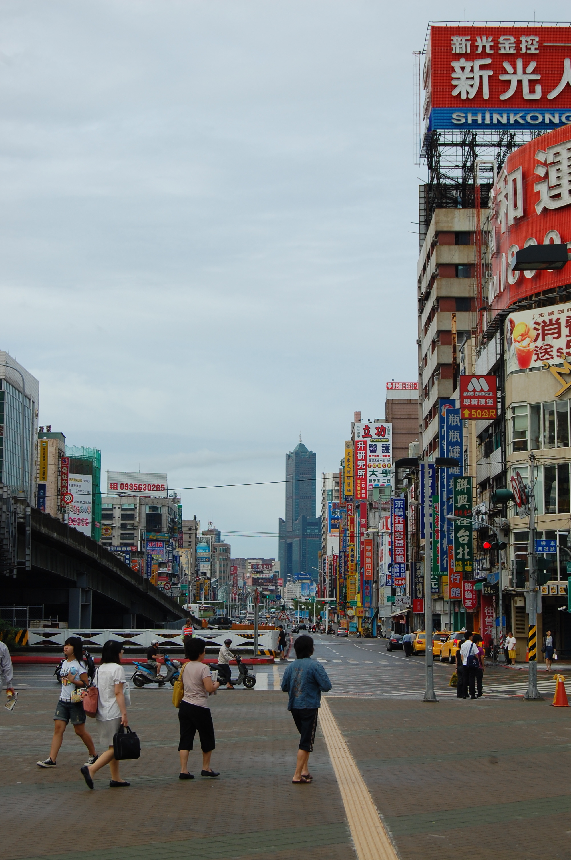 Chungshan Rd., Kaohsiung City in front of TRA Kaohsiung Station.